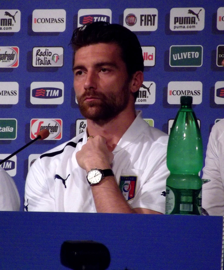 Morgan De Sanctis during press conference in Kraków on 22.06.2012